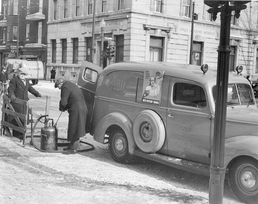 Montreal Light, Heat and Power Consolidated. employees doing maintenance on a gaz line. Source : Hydro-Québec Archives, F9/700765_F2752-16.